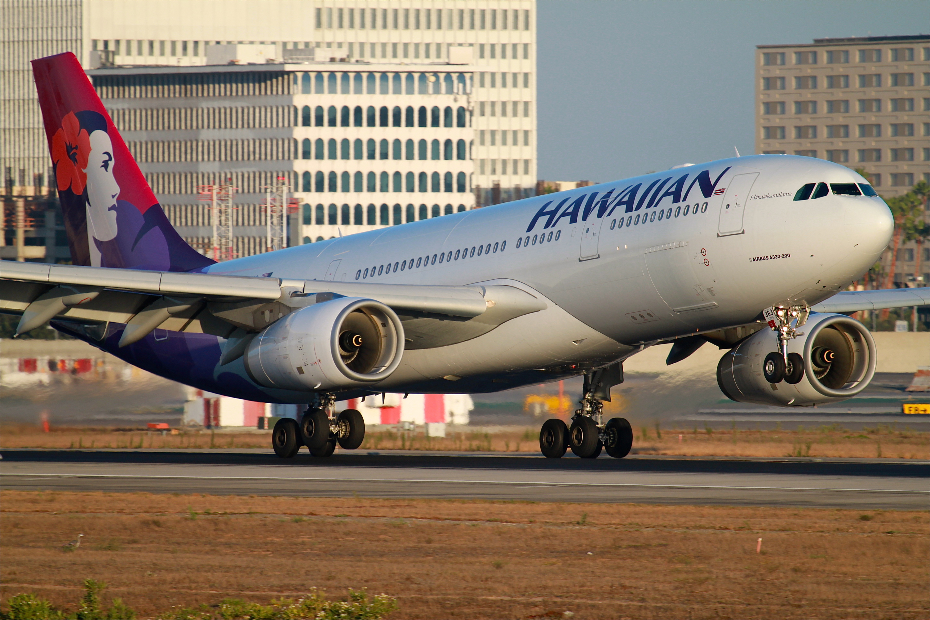 Hawaiian Airlines A330-200